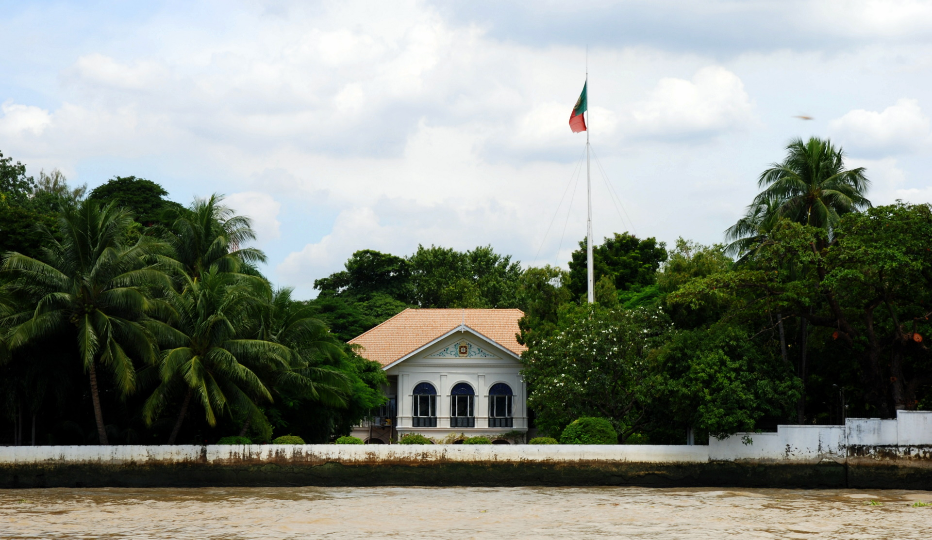 The Portuguese embassy in Bangkok as seen from the middle of the Chao Phraya river.